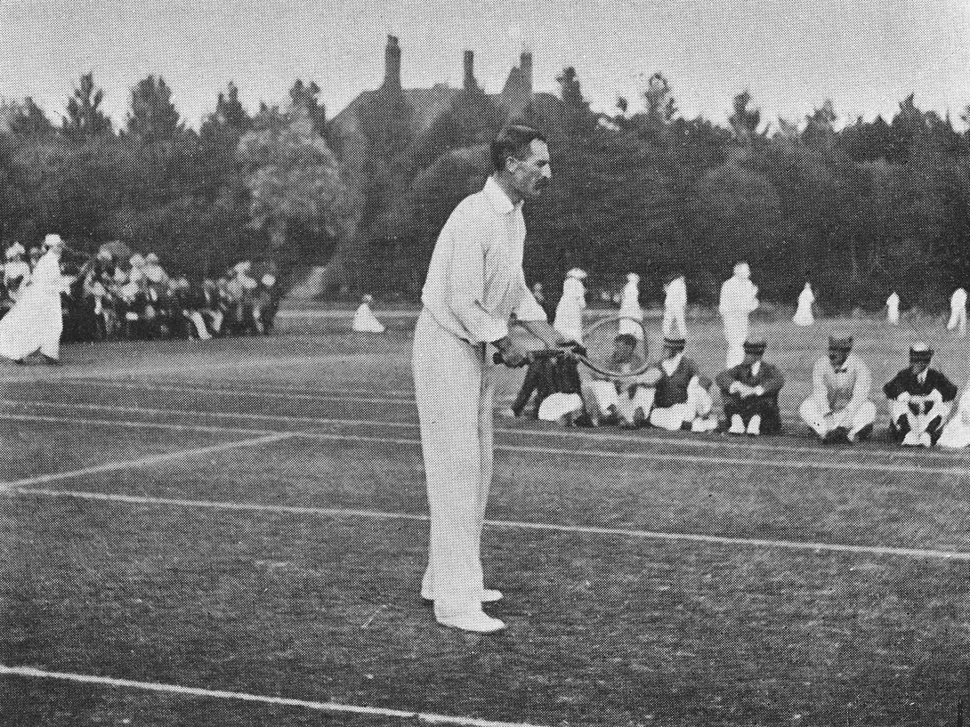 Goearge Whiteside Hillyard, playing at Eastbourne.